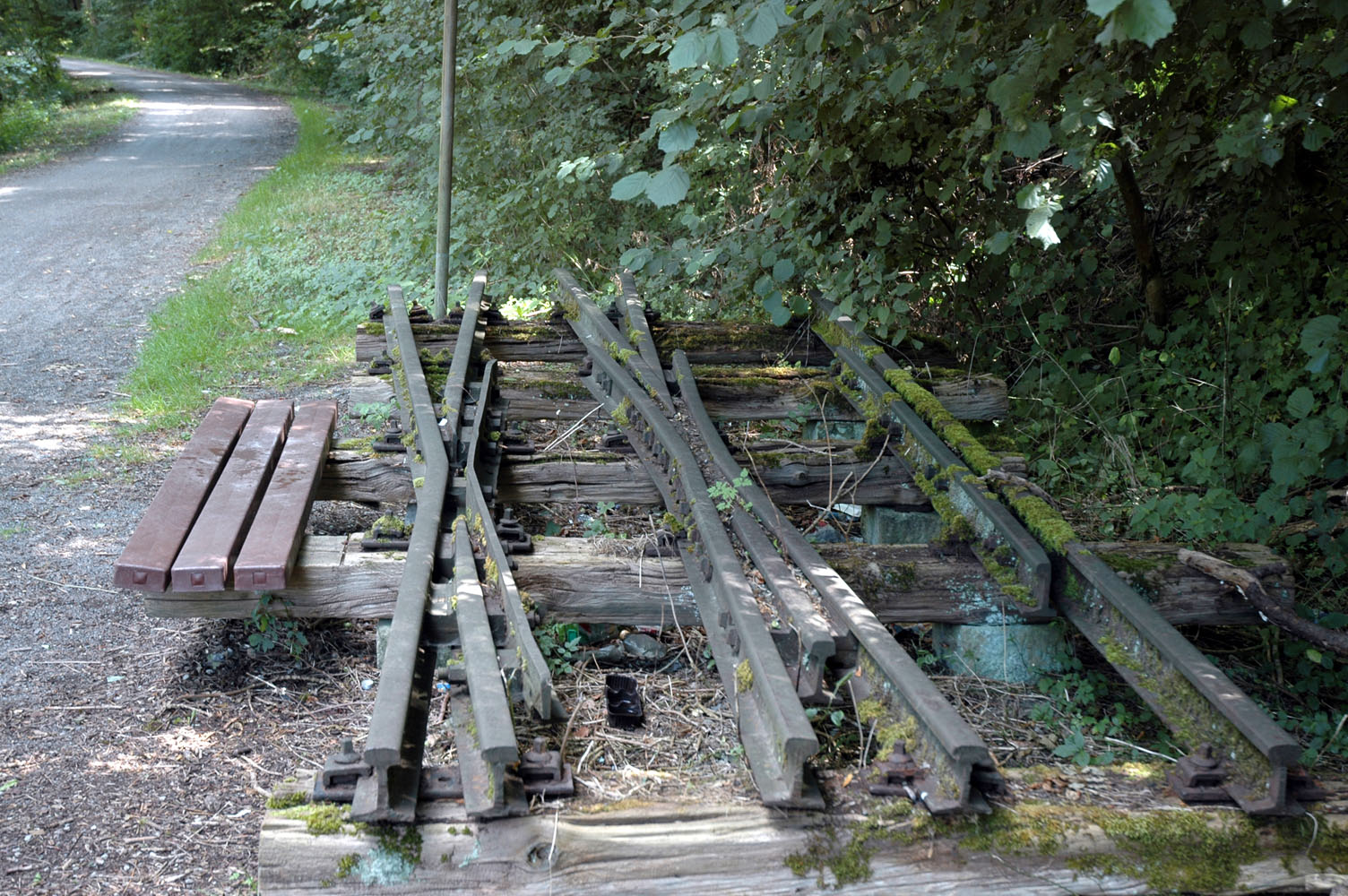 remainings of a double track switch of former Bottwartalbahn near Ilsfeld.